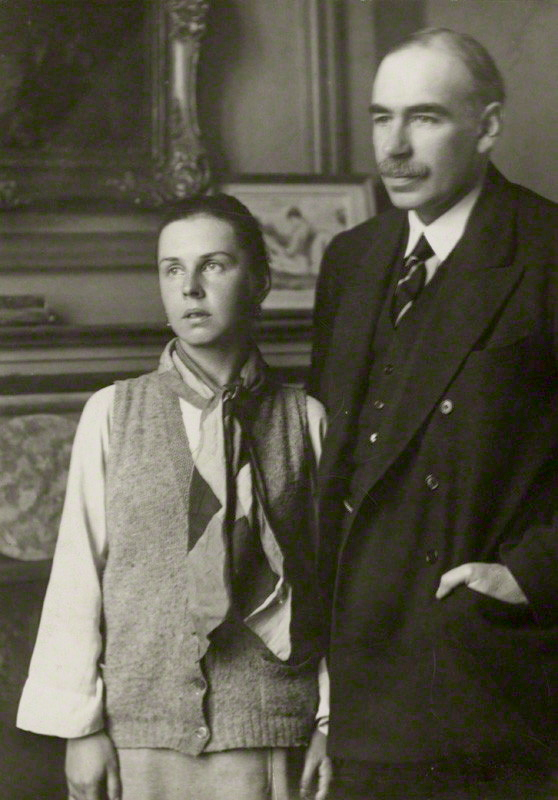 John Maynard Keynes, 1st Baron Keynes of Tilton; Lydia Lopokova